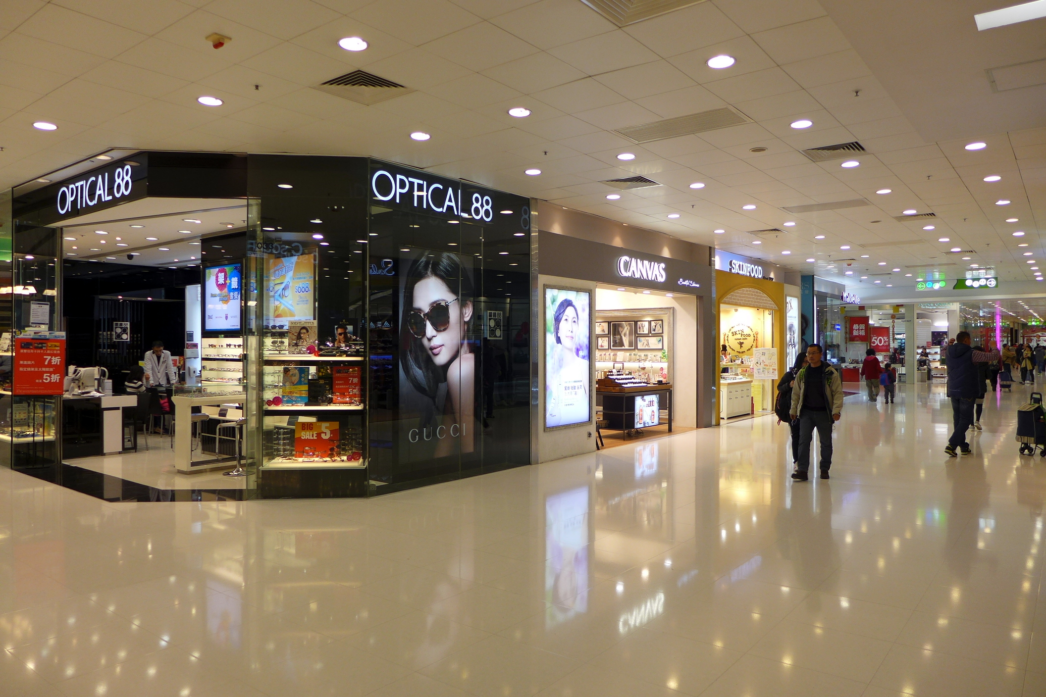 Uptown Plaza shops